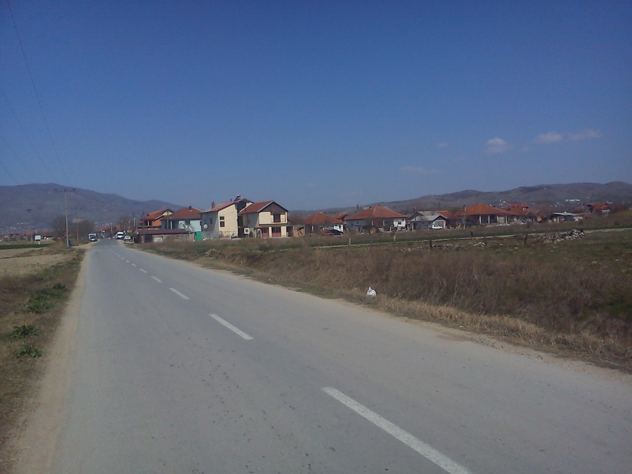 village of Marino, Macedonia